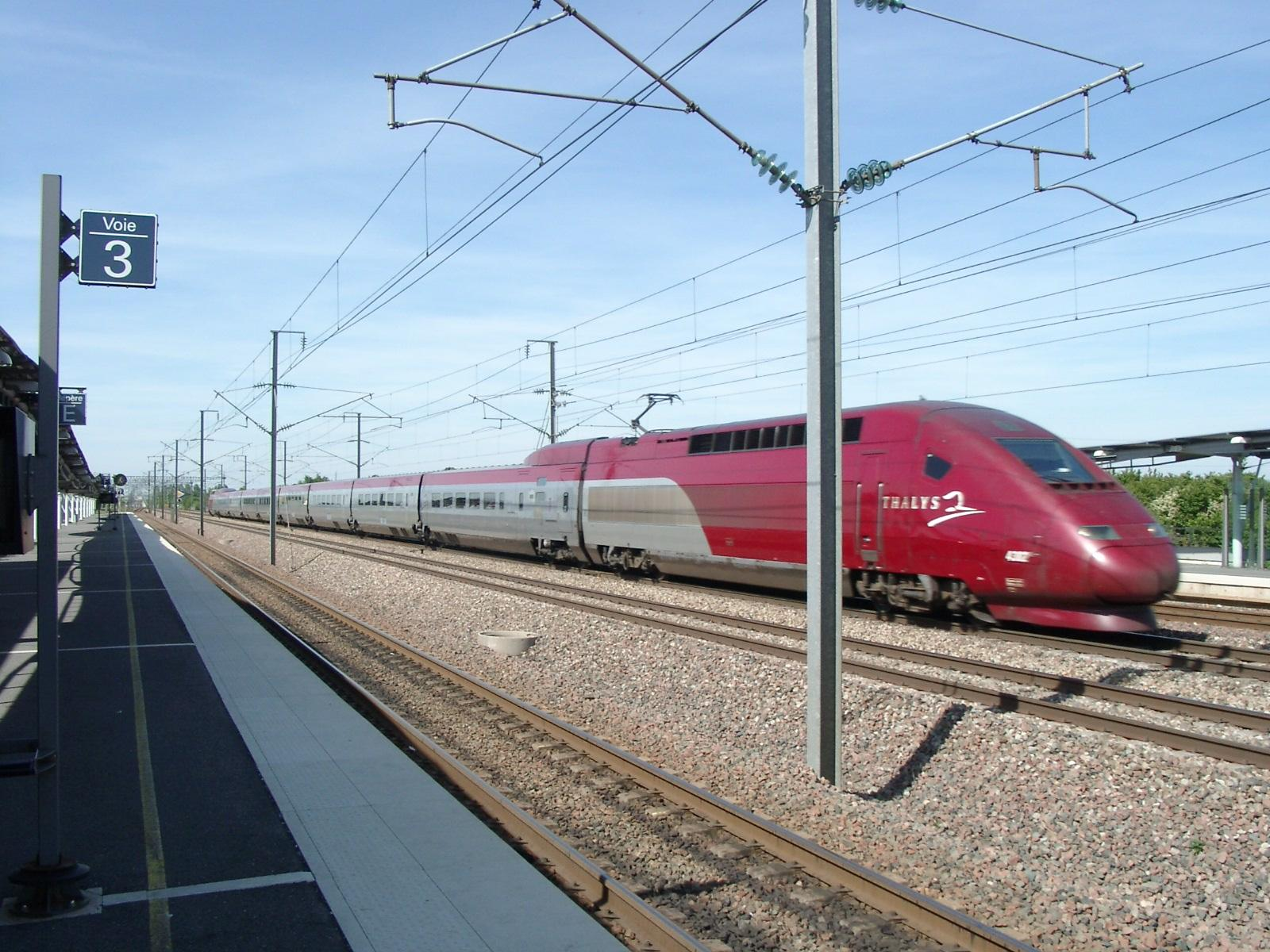 TGV Haute-Picardie train station in northern France (Picardy region)